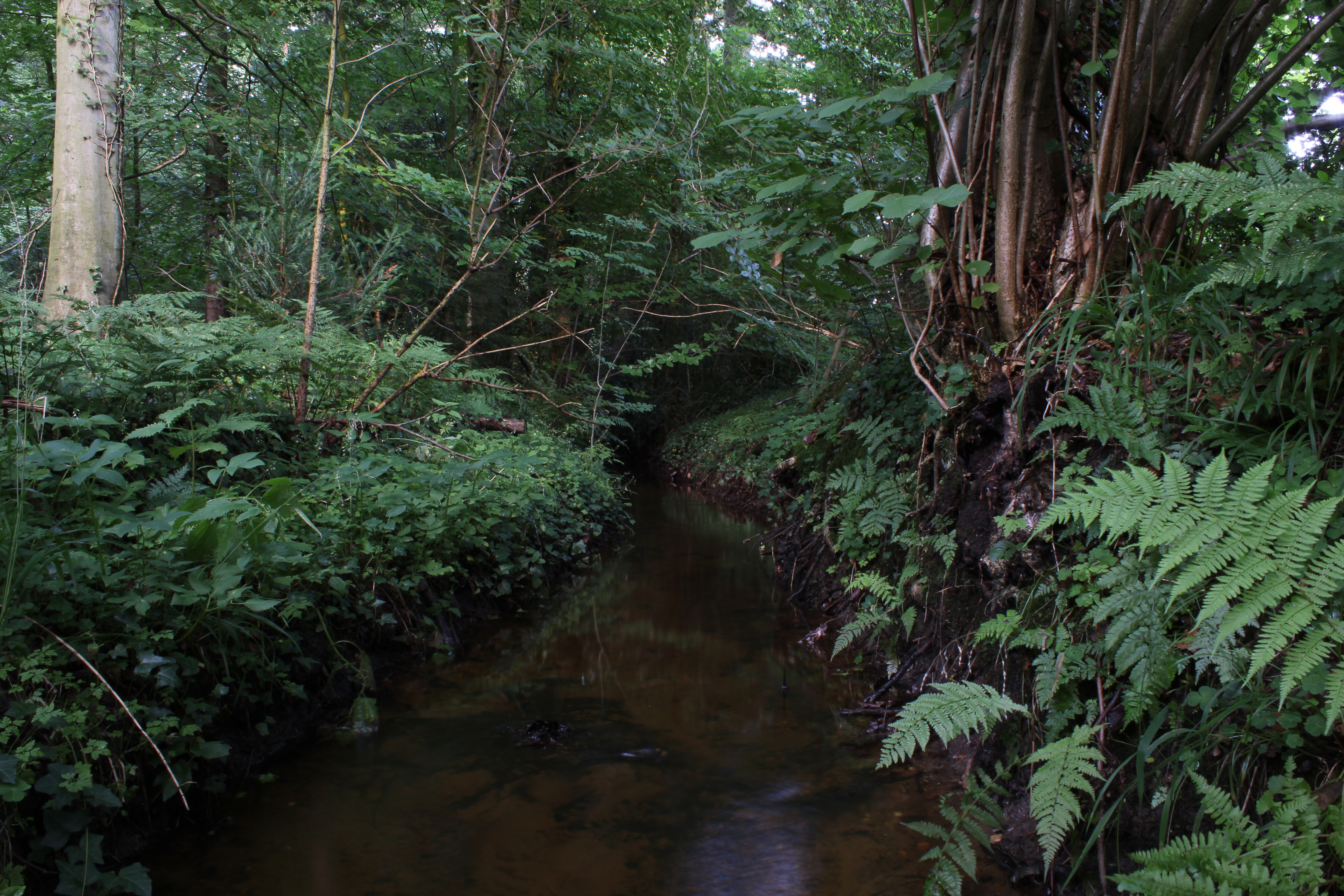 The Bruninksbeek in Smalenbroek near Enschede viewed upstream, in a easterly direction